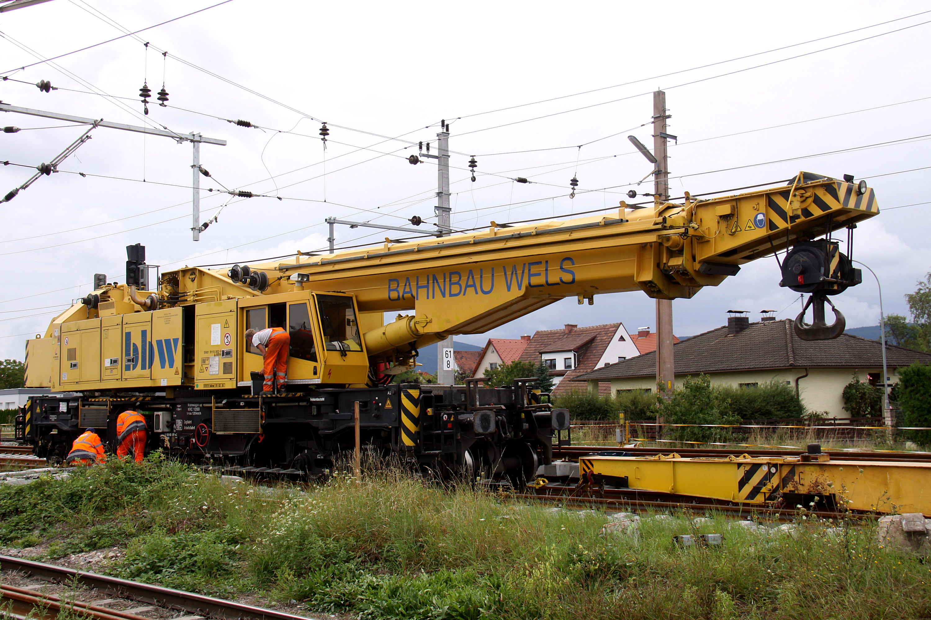 Total remodeling, renovation and modernization of Neunkirchen railwaystation. – Kirow Kirow rail crane KRC 1200 of Bahnbau Wels. Eisenbahnkran der Firmas Bahnbau Wels